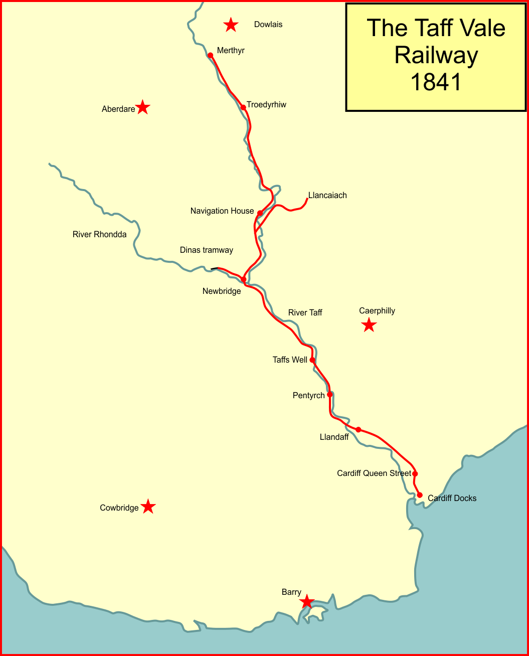 System map of the Taff Vale Railway, Wales